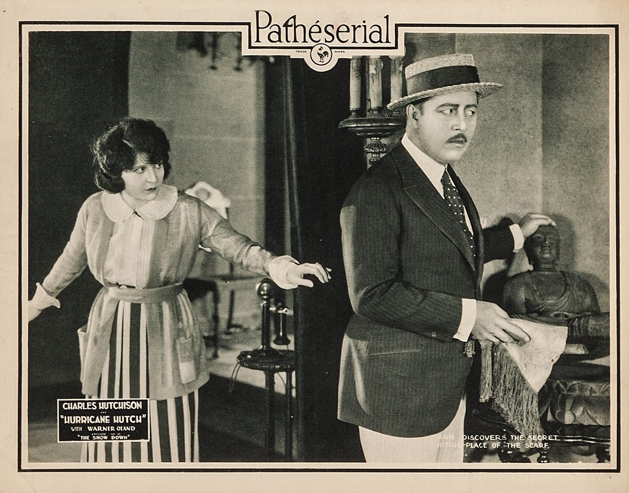 Lobby card for the American film serial Hurricane Hutch (1921). Caption: "Ann discovers the secret hiding place of the scarf."